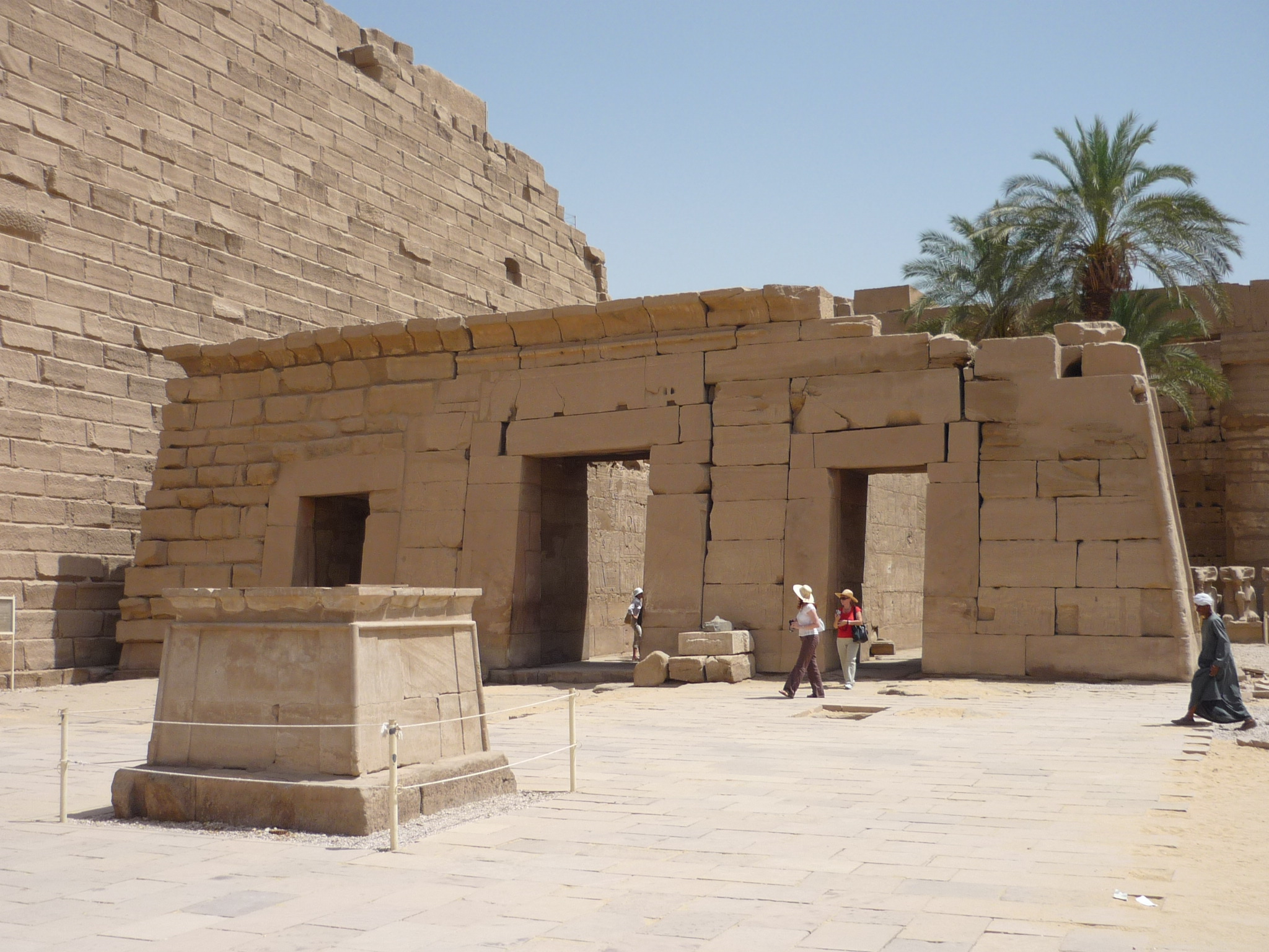 Temple of Seti II, Karnak temple of Amun-Ra, Egypt